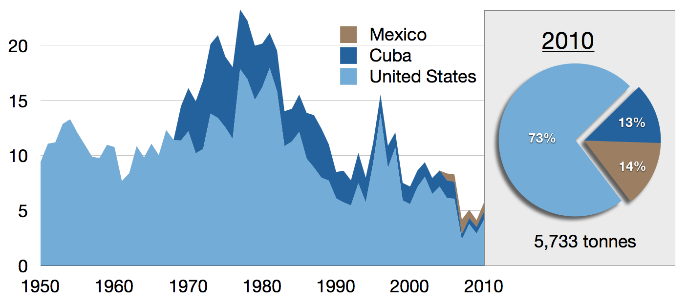 Fisheries recorded capture of wild Farfantepenaeus duorarum, (northern pink shrimp) in thousand tonnes from 1950 to 2010. Based on data sourced from the FishStat database, FAO.